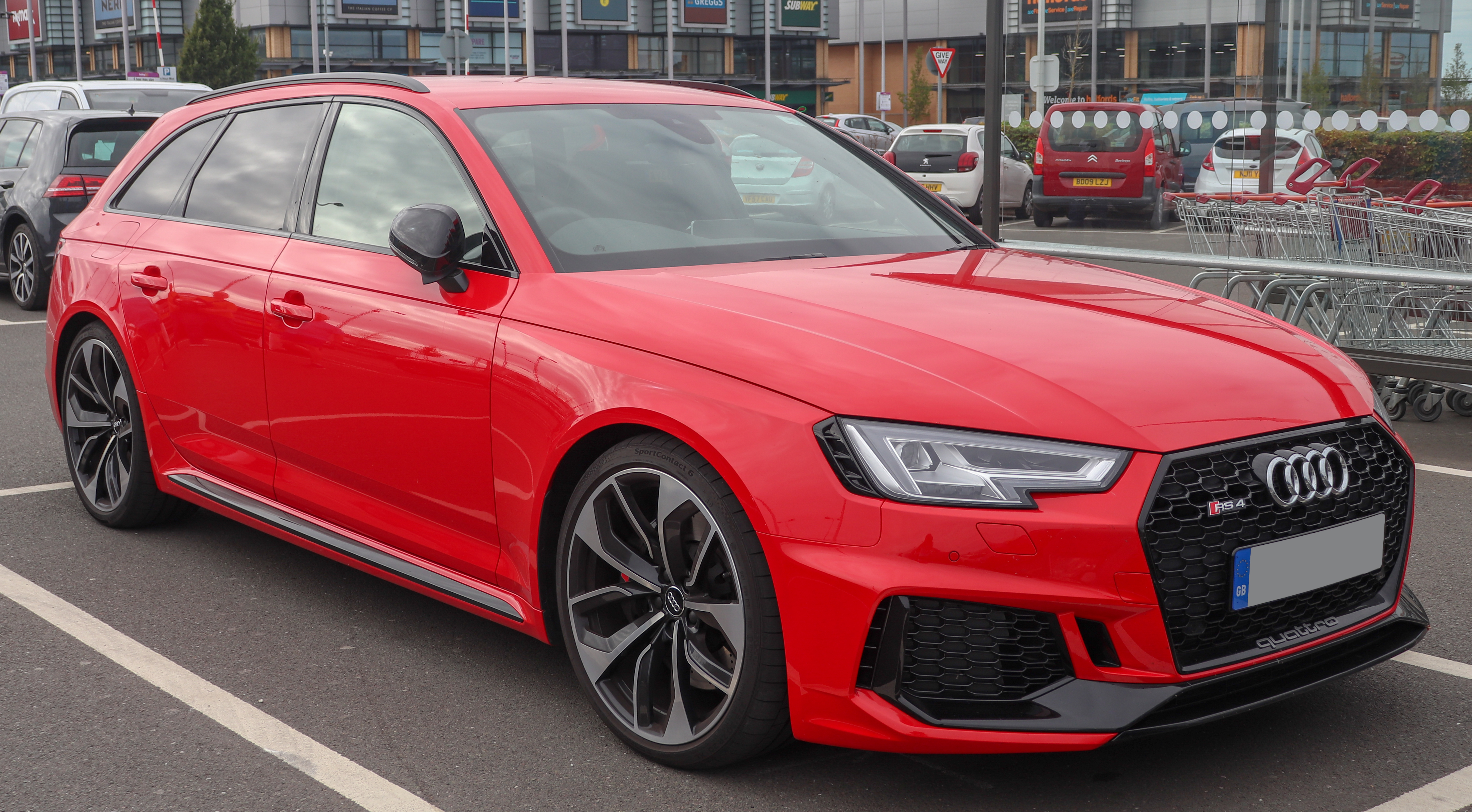 2018 Audi RS4 TFSi Quattro Automatic 2.9 Taken in Leamington Spa